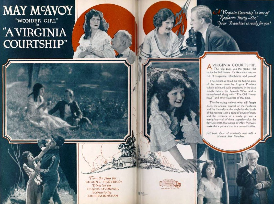 Advertisement for the American drama film A Virginia Courtship (1921) with May McAvoy, Alec B. Francis, and Casson Ferguson, from the insert after page 10 of the September 24, 1921 Exhibitors Herald.